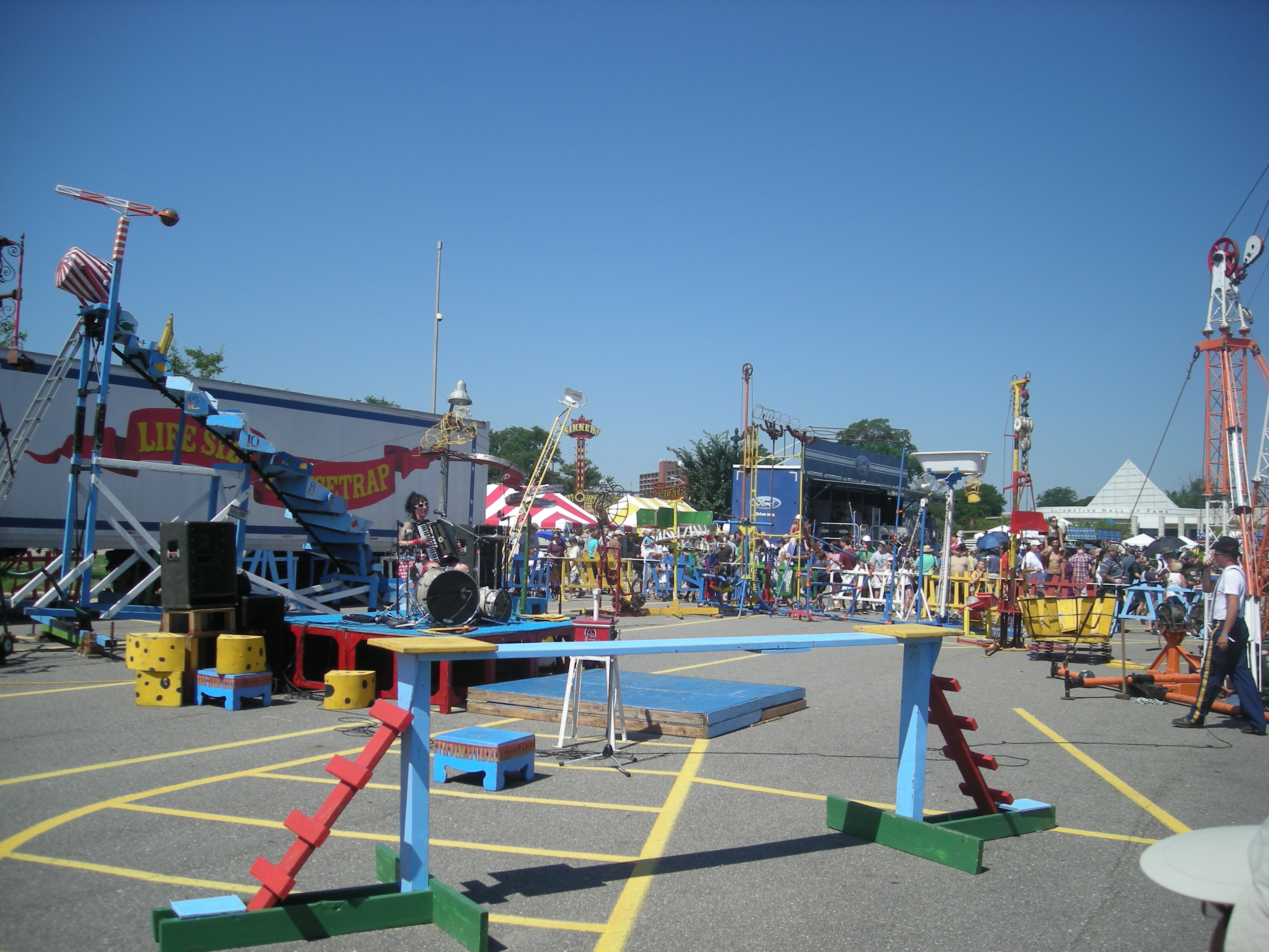 Life Size Mousetrap at Maker Faire Detroit 2011 at the Henry Ford in Dearborn, Michigan (United States).